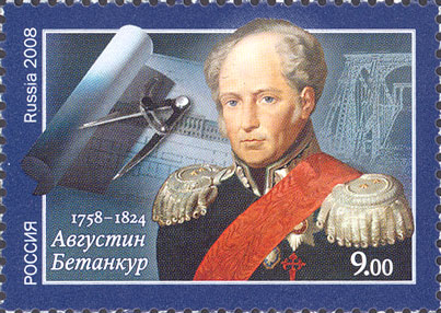 Stamp of Russia, The 250 anniversary of engineer and architect Agustín de Betancourt (1758-1824) stamp, 2008, 9 rub. Portrait attributed to Platon Tyurin, but attribution doubtful.